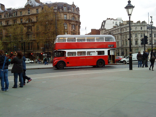 Stagecoach East London Routemaster bus RM1933 (reg. ALD 933B) operating London Buses heritage route 15, pictured in the south east corner of Trafalgar Square facing east. Having just come around the north side of the roundabout, it's entering Strand to begin a new journey to Tower Hill. It's wearing a special 1933 style livery applied in October 2009, that it & other buses originally wore in 1983 to mark London Transport's 50th anniversary (the original application also featured 50th anniversary logos).